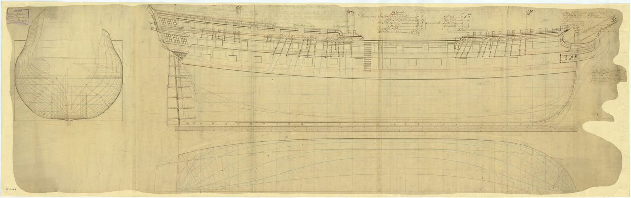 Plan showing the body plan, sheer lines, and longitudinal half-breadth for Thunderer (1783), Terrible (1785), Venerable (1784), Victorious (1785), Theseus (1786), Ramillies (1785), and Hannibal (1786), all 74-gun Third Rate, two-deckers. The plan also records alterations dated January 1813 for cutting down 74-gun Third Rates to Frigates, relating specifically to Majestic (1785), Resolution (1770), and Culloden (1783), all 74-gun Third Rate, two-deckers. Only the Majestic was cut down to a 58-gun Fourth Rate, as the other two were broken up in 1813.